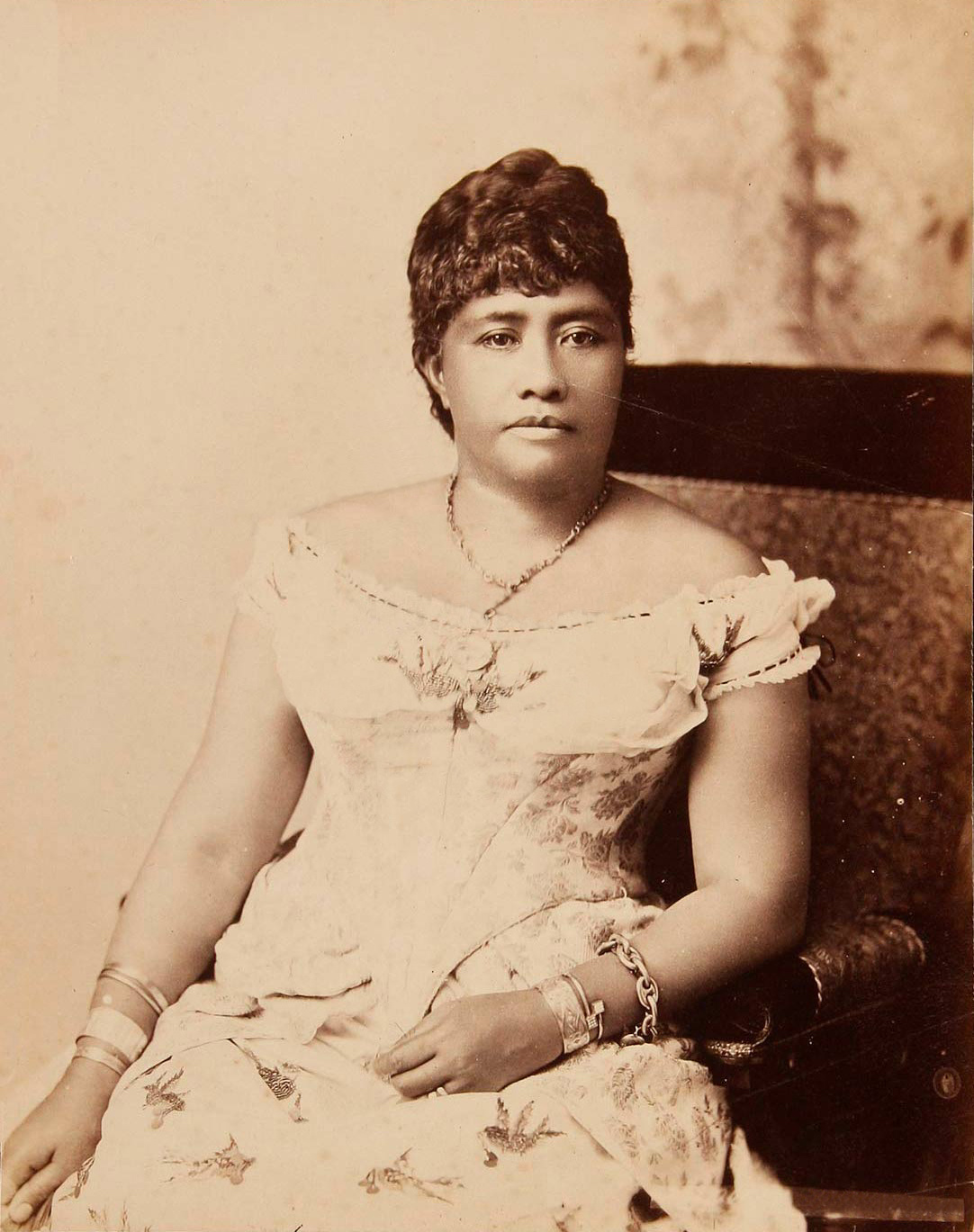 A photo of the young Princess Liliuokalani.